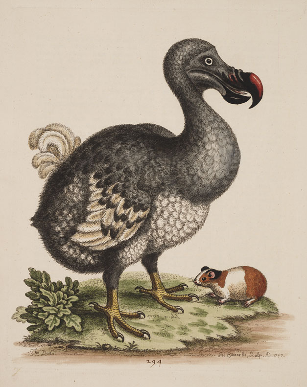 Engraving: "The Dodo, and the Guiney pig" by George Edwards.